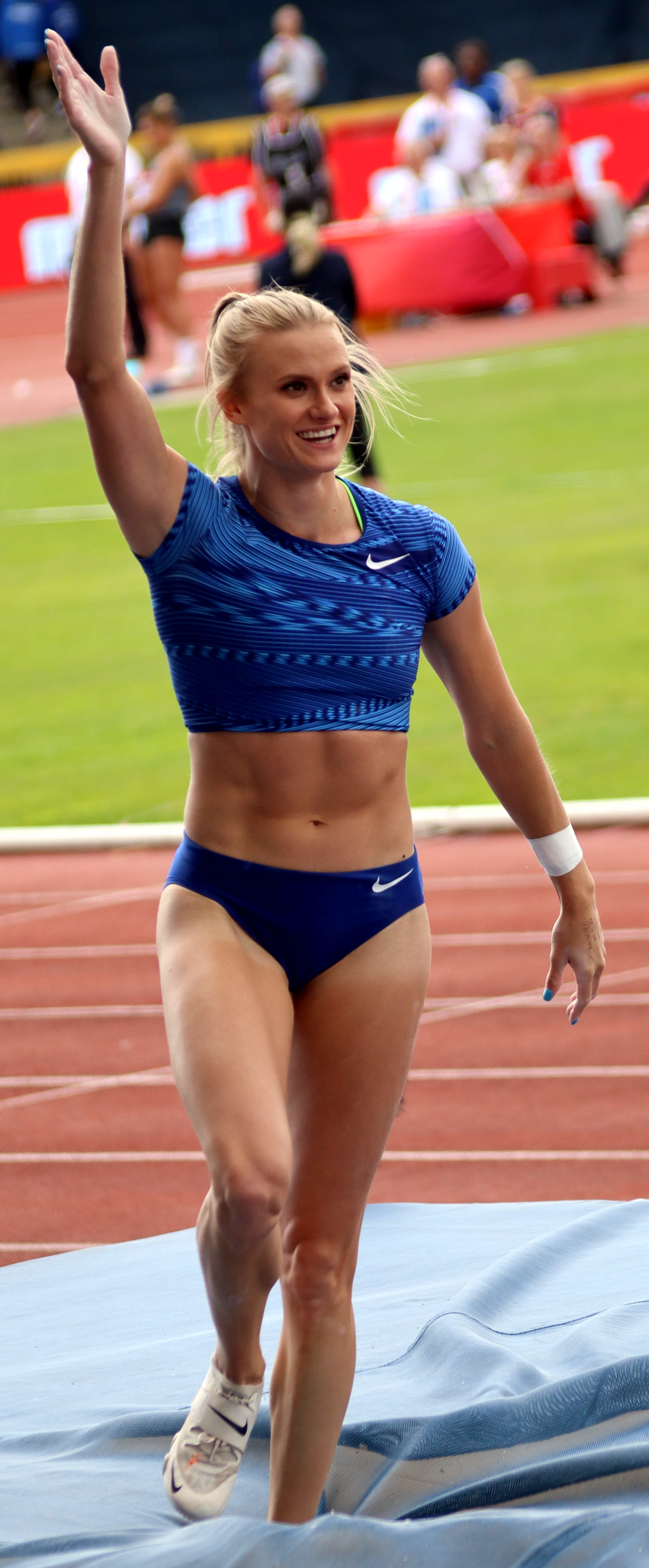 Pole vaulter Katie Nageotte at the 2019 Birmingham Grand Prix